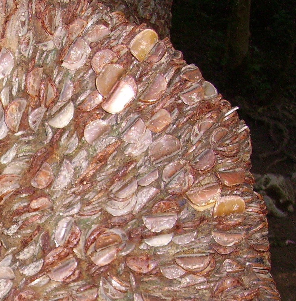 Ingleton Falls near Ingleton in North Yorkshire, United Kingdom